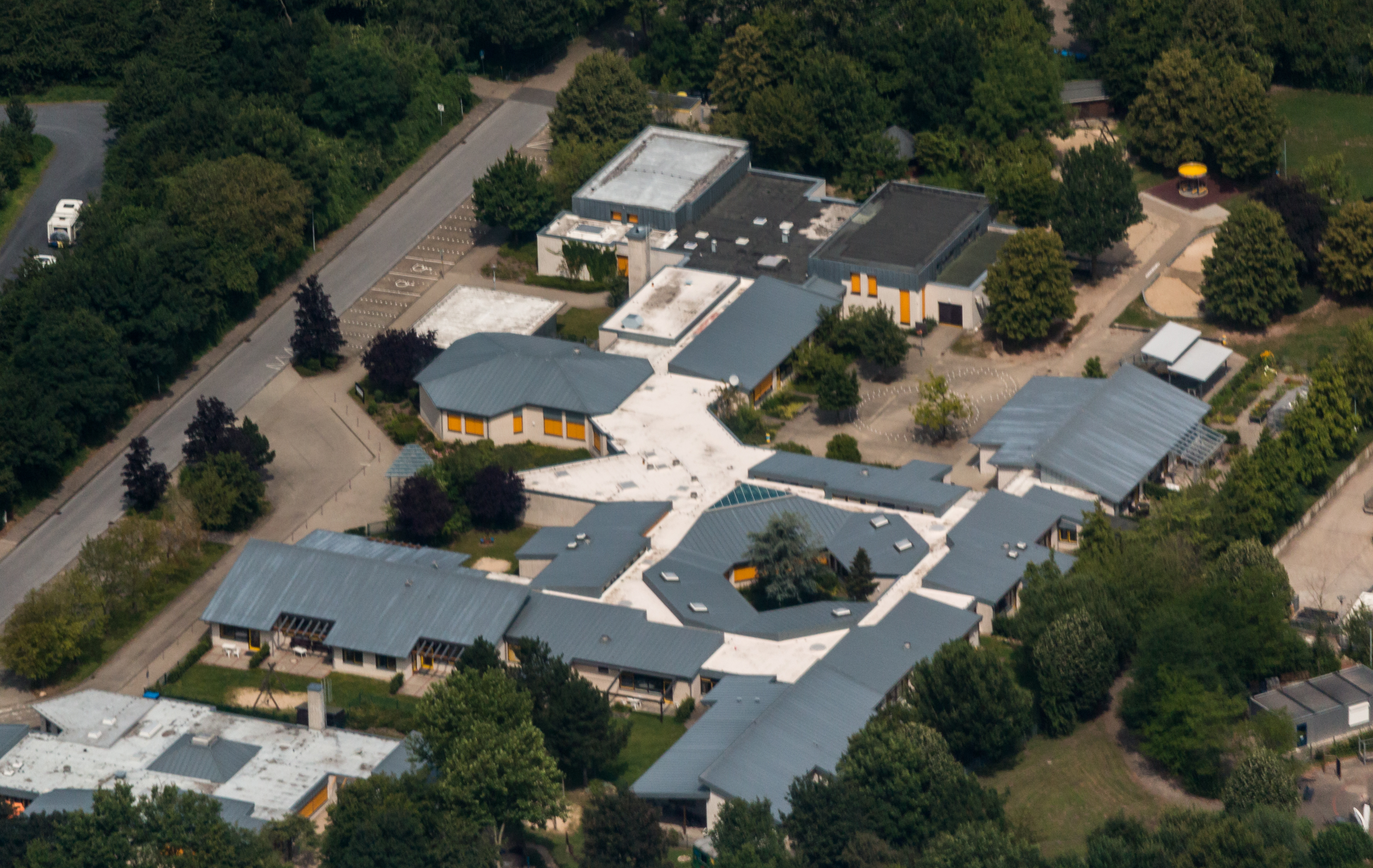 Technical schools, Burgsteinfurt, Steinfurt, North Rhine-Westphalia, Germany